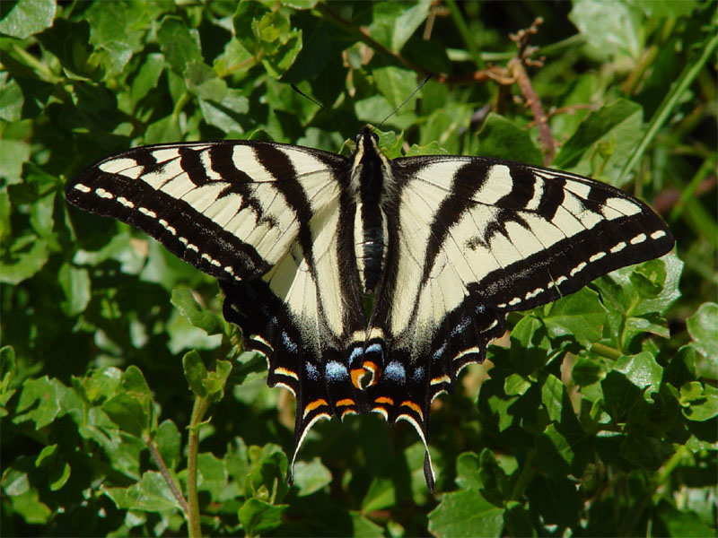 Description Pale Swallowtail, Papilio eurymedon, Family: Papilionidae Date May 22, 2004 Location Huckleberry Botanic Regional Preserve, in the Berkeley Hills, Northern California.